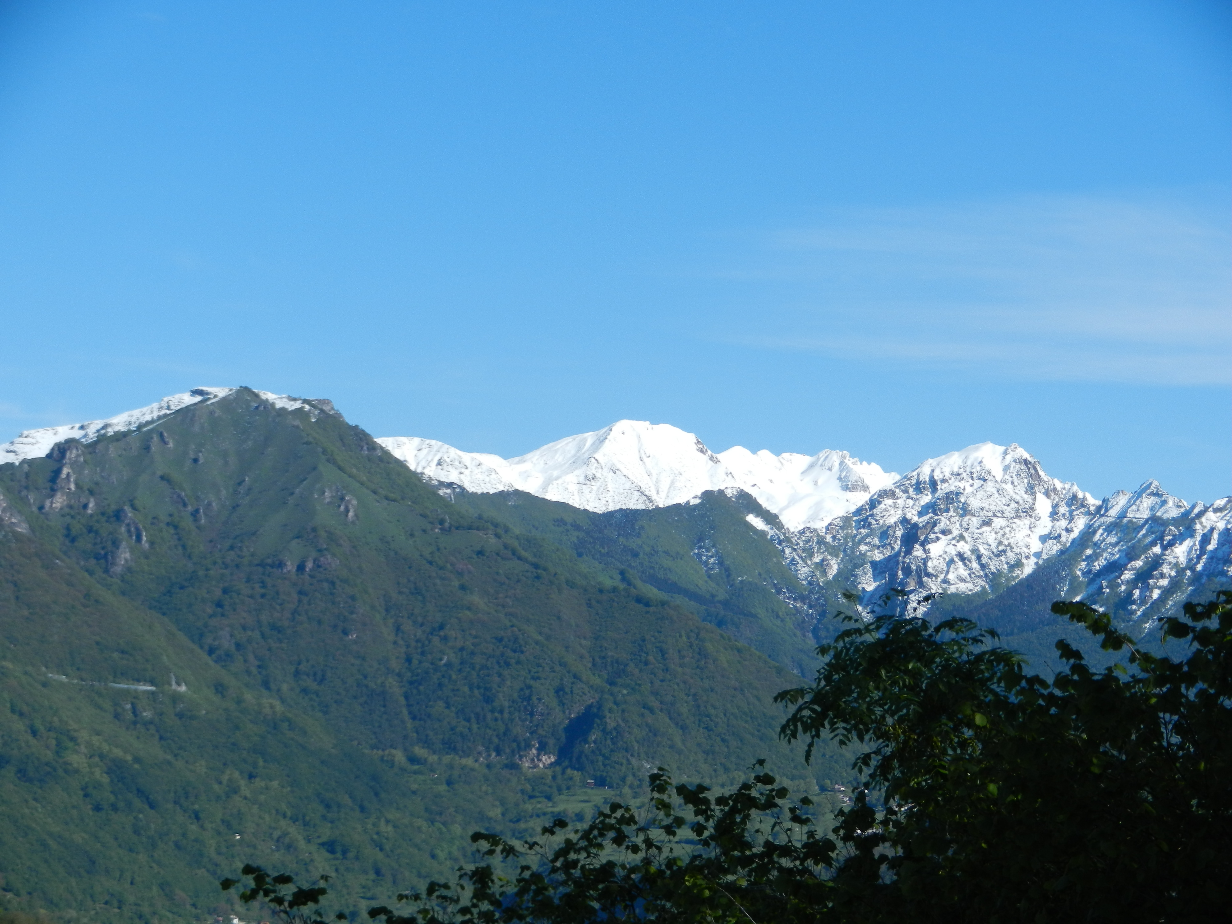 Mauntain group Carega from Bolca, Lassinia